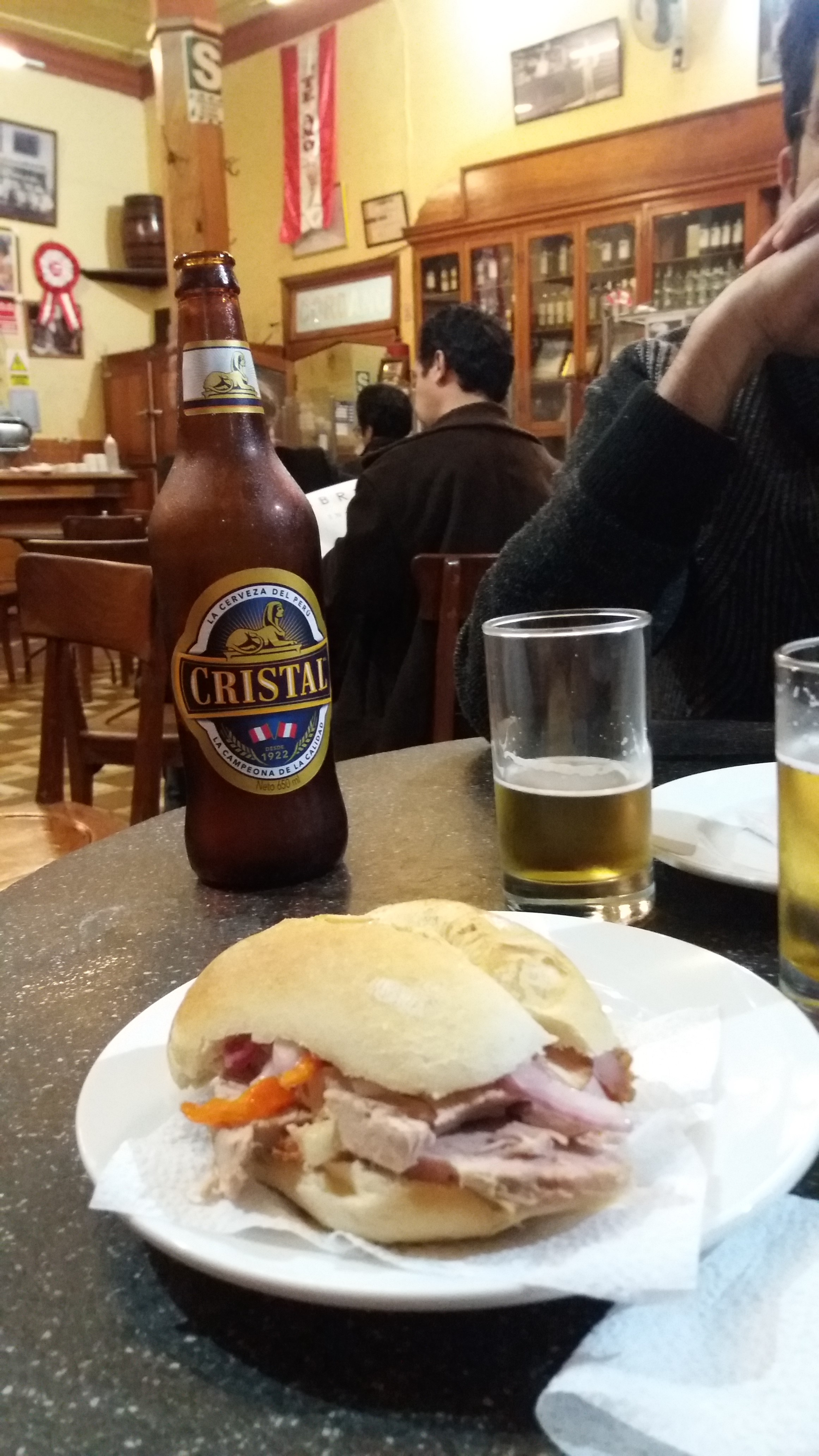 Local politician sandwich & beer place Lima, Peru, 08/2017